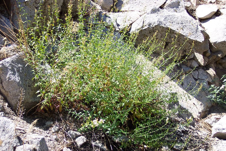 Keckiella breviflora — bush beardtounge. In the Eastern Sierra, Mono County, California.